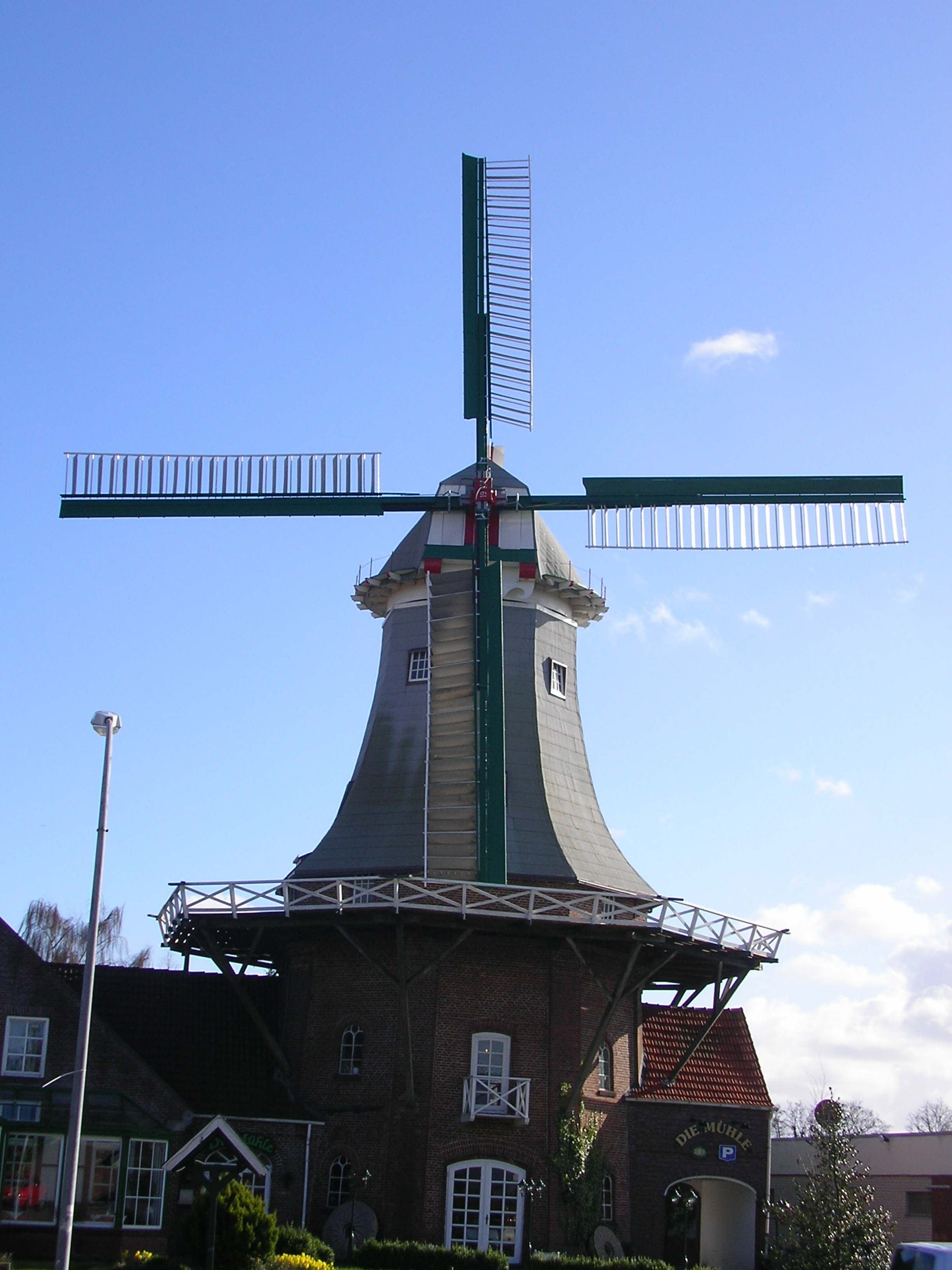 Sjuts Mill, Wittmund